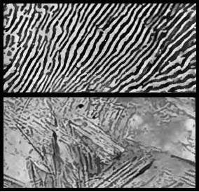 Photomicrographs of steel. The top photo shows annealed steel, while the bottom shows quenched steel.